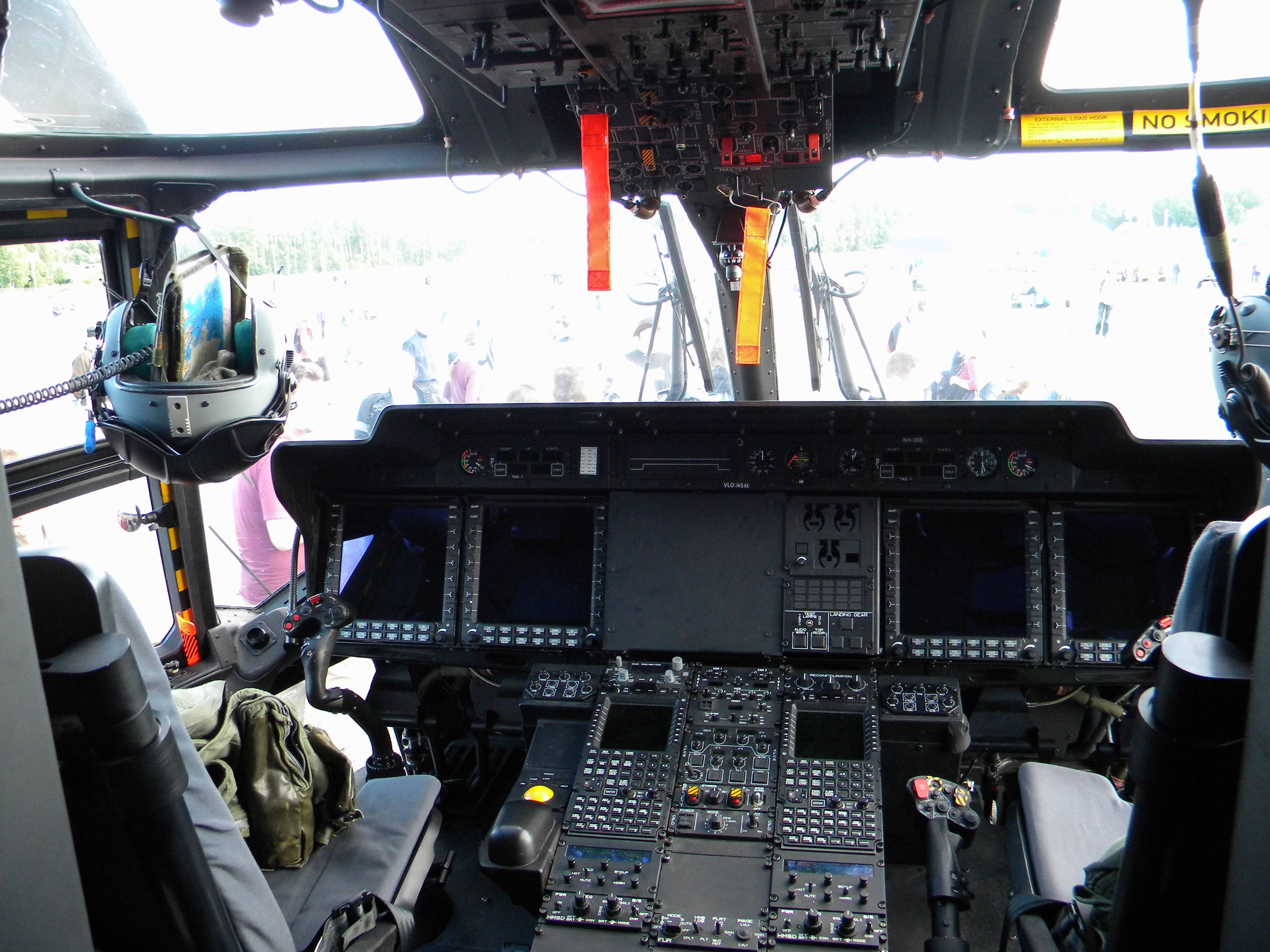 The cockpit of an NH-90 helicopter.